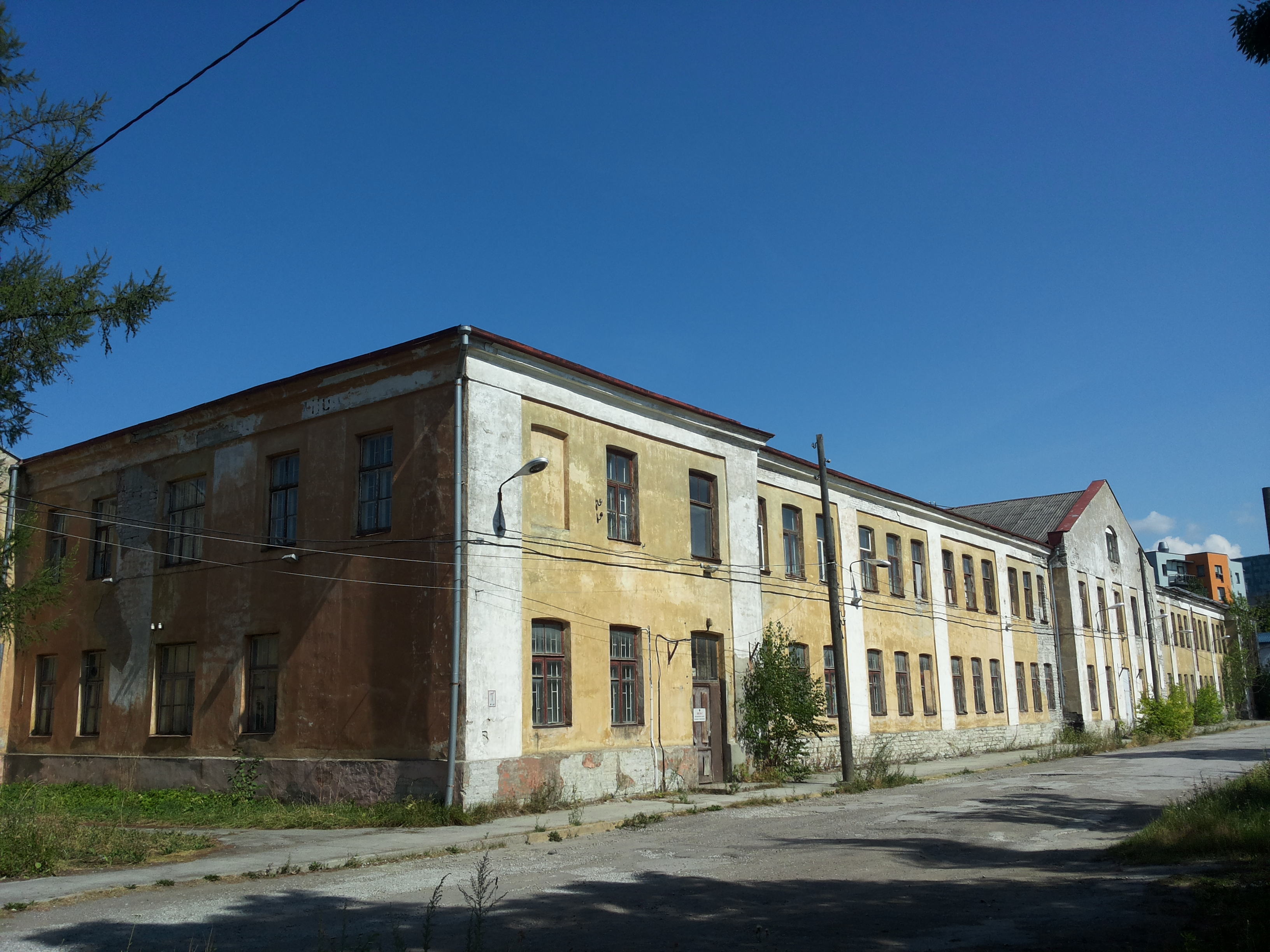 Building at Filtri tee 5, Tallinn